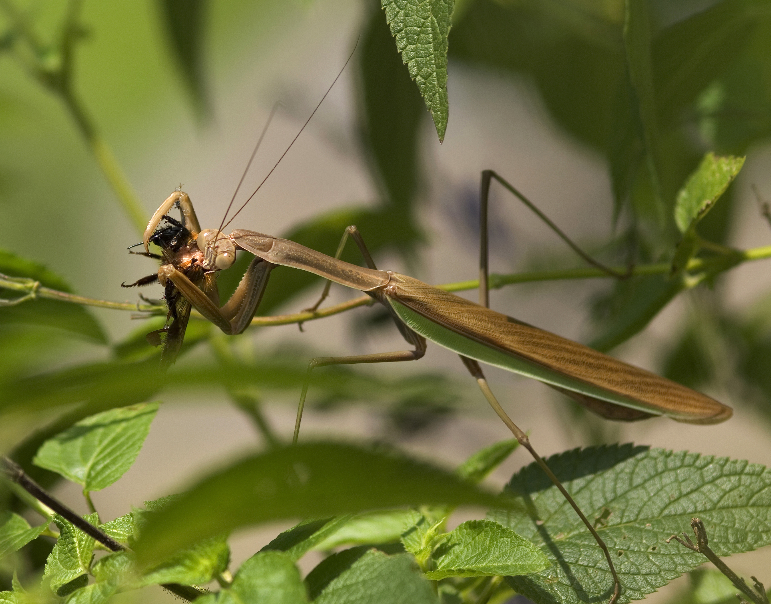 A mantis eating a bee. Location: Saitama, Japan